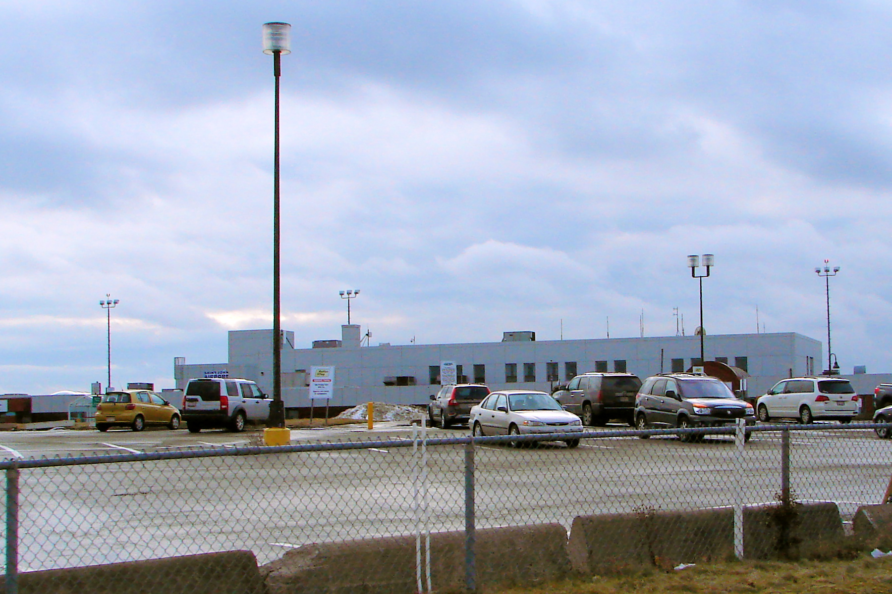 Saint John Airport, New Brunswick, Canada